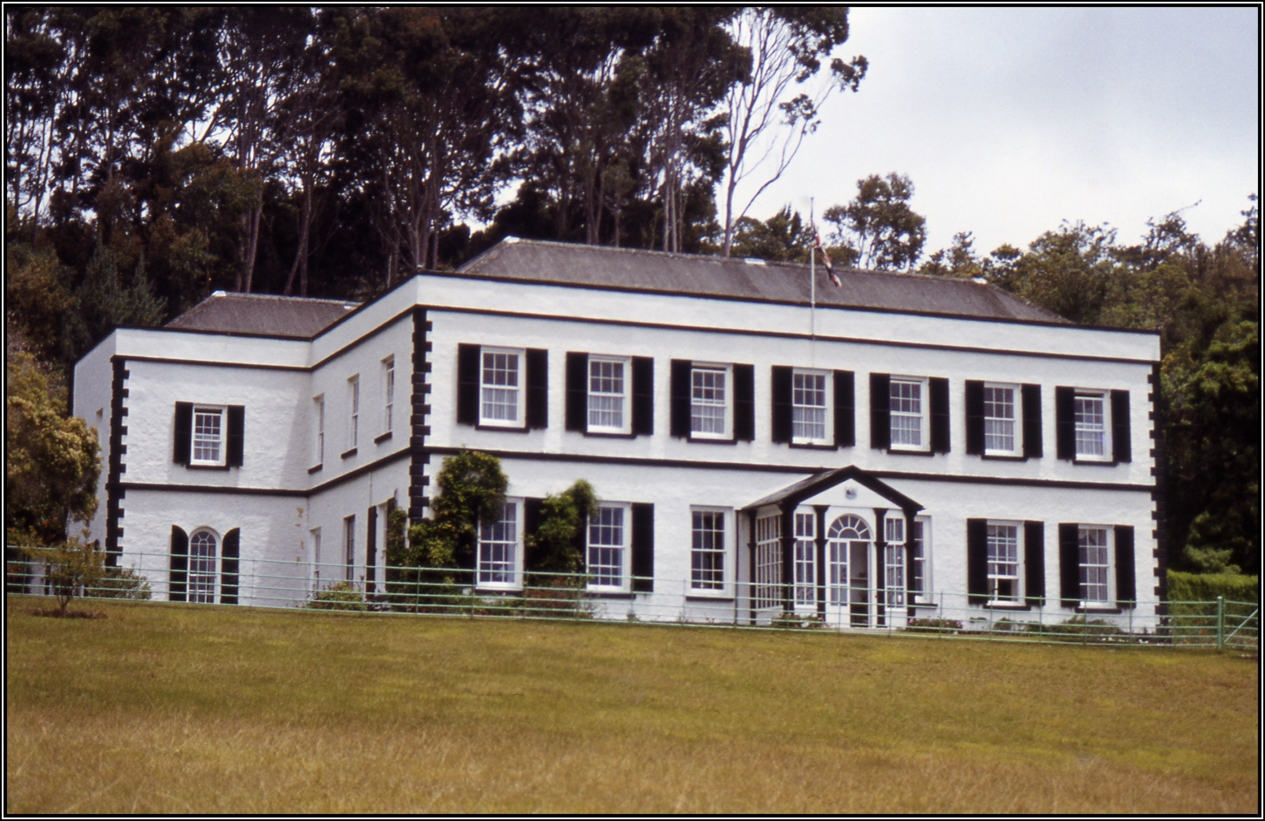 Plantation House. c1985. Official residence of the Governor of St.Helena. Peter Neaum.